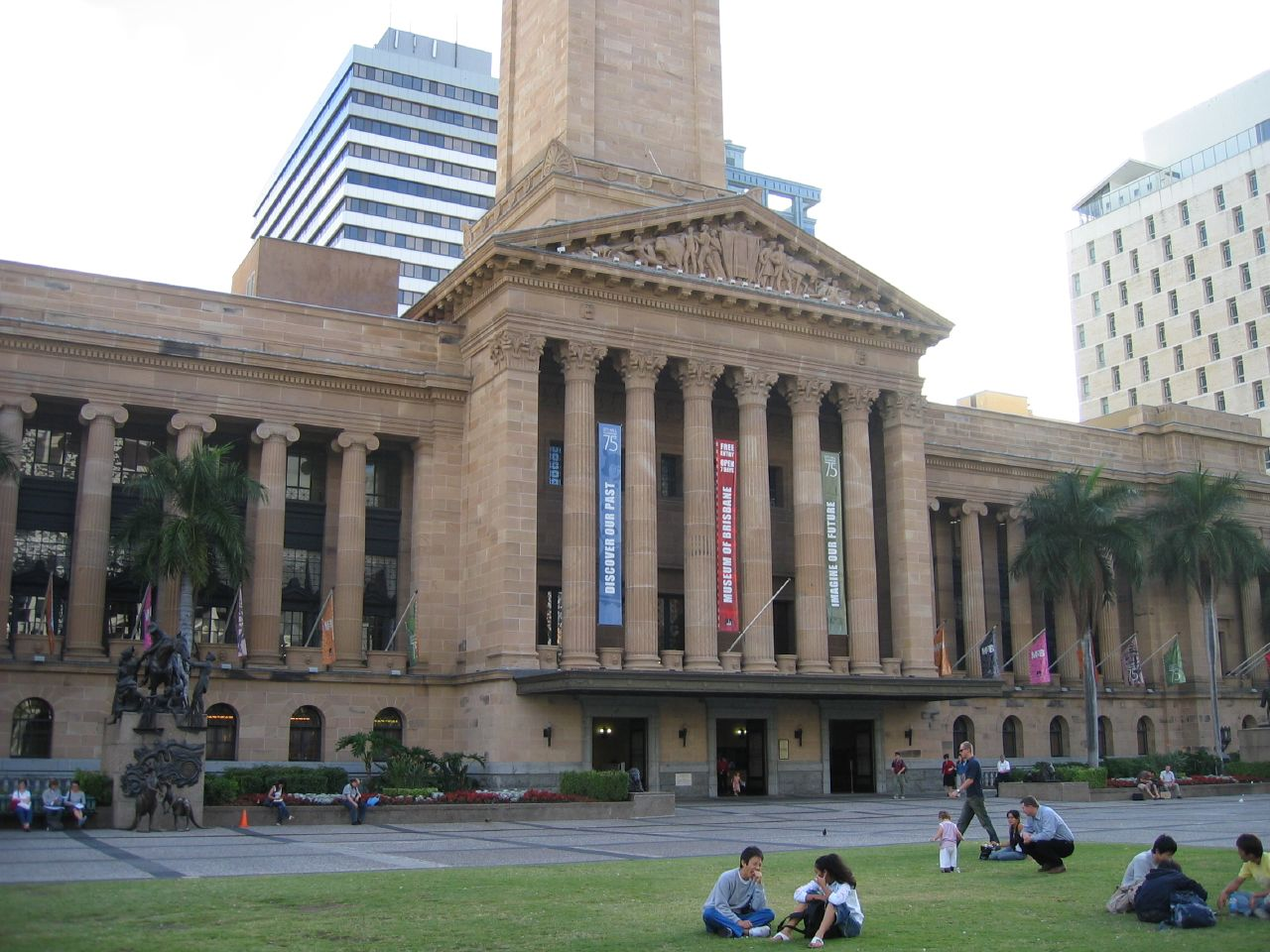 Located in the old Town Hall, the Museum of Brisbane opened in 2004